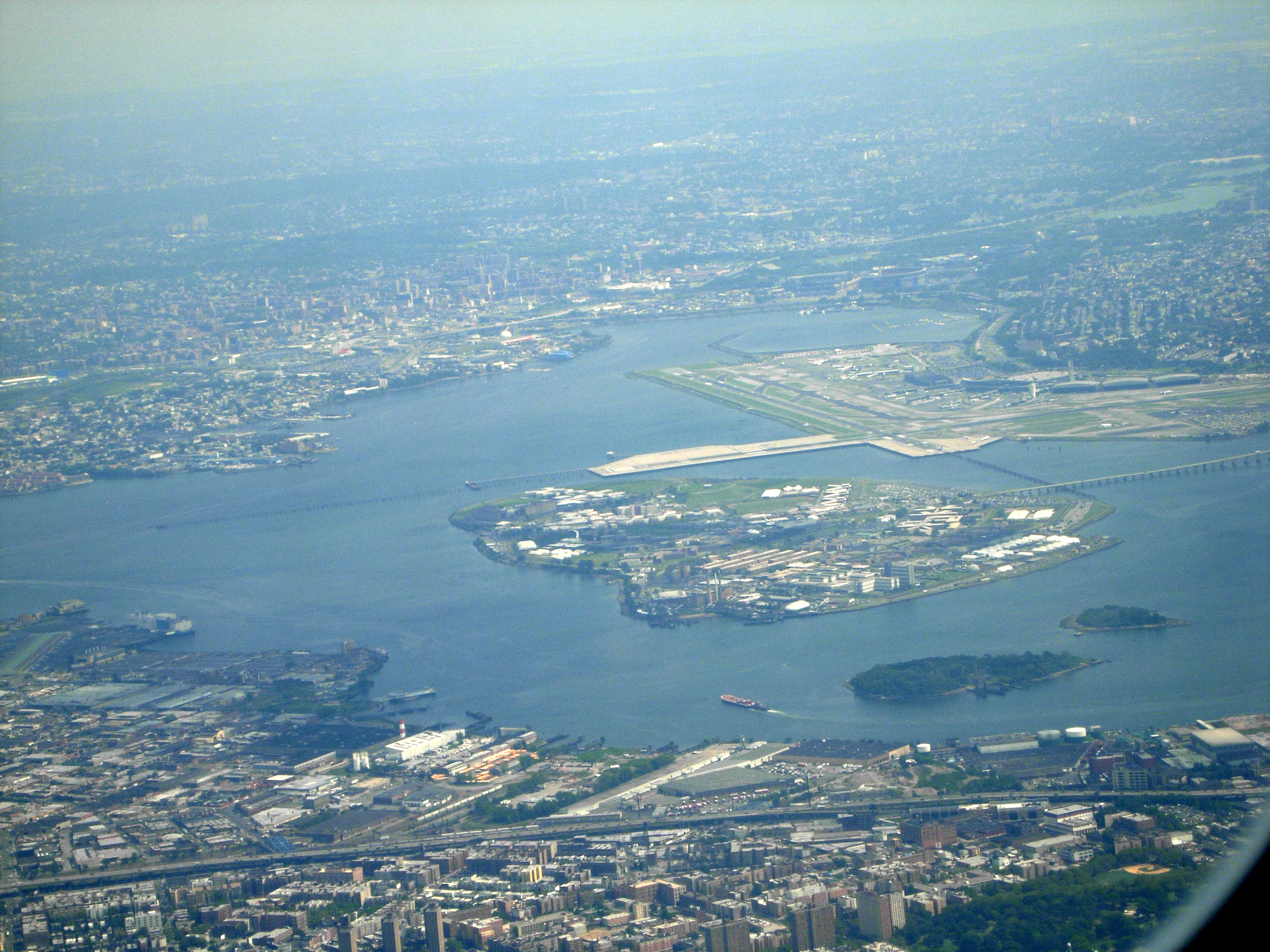 A view of Rikers Island in New York, United States, looking south from the air over The Bronx. LaGuardia Airport can be seen in the background. Flushing Bay, Shea Stadium and Citi Field can be seen slightly behind LaGuardia. Vernon C. Bain Correctional Center can be seen in the lower left as the blue and white docked prison barge. The Hunts Point Wastewater Treatment Plant is located to the right of the Bain Correctional Center.